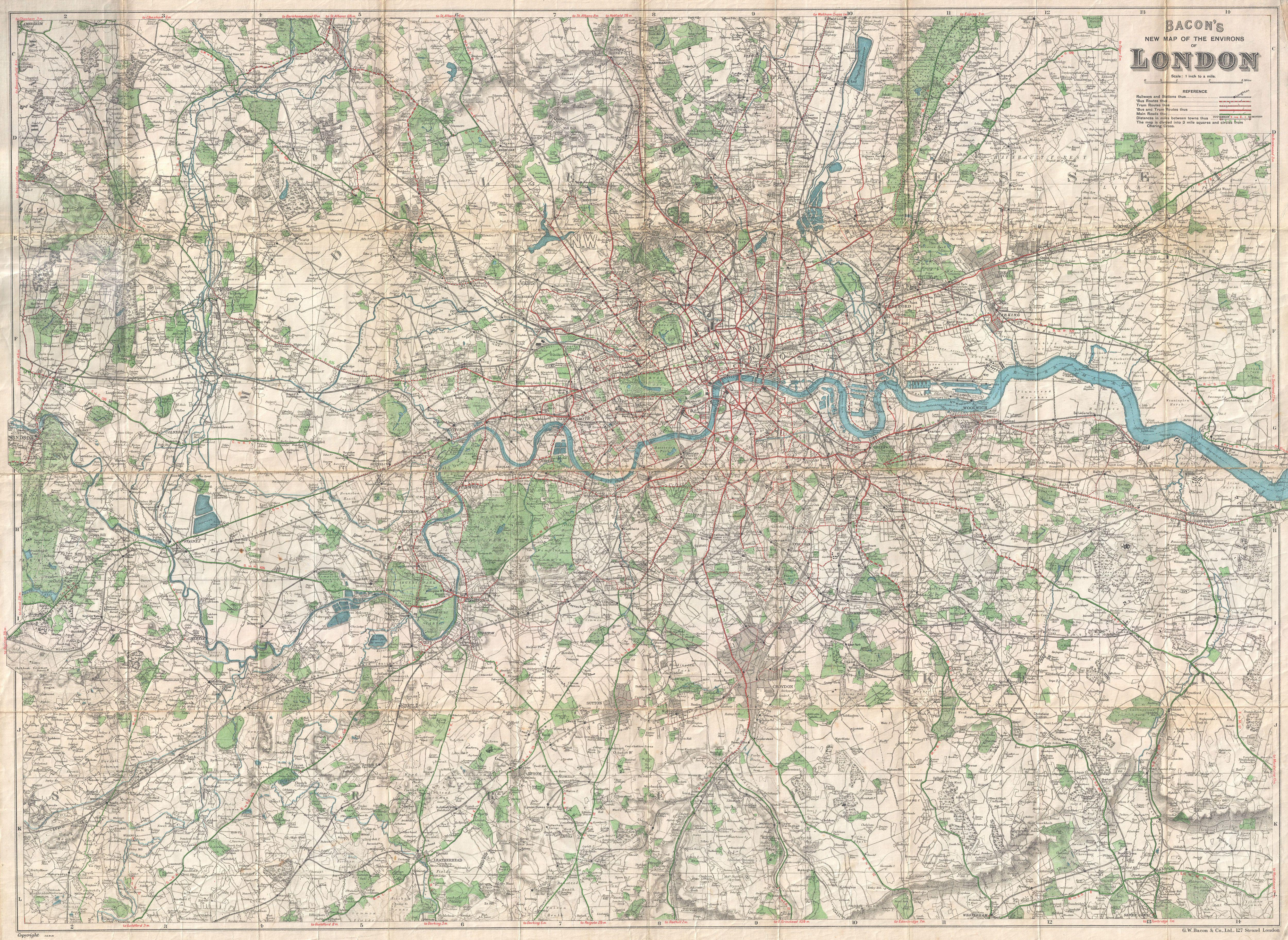 An extremely attractive folding pocket map of London, England and environs issued in 1920 by Bacon & Co. Covers the greater London area from Amersham in the northwest to Seven Oaks in the southeast and from Worplesdon in the southwest to Daguam Park in the northeast. Shows the course of the Thames River, streets, train and tram routes, bus lines, parks, roads, and important building where notable. Mounted on original linen.